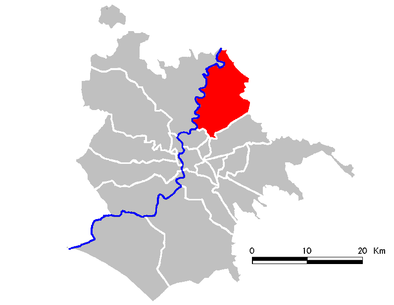 Locator maps of Rome